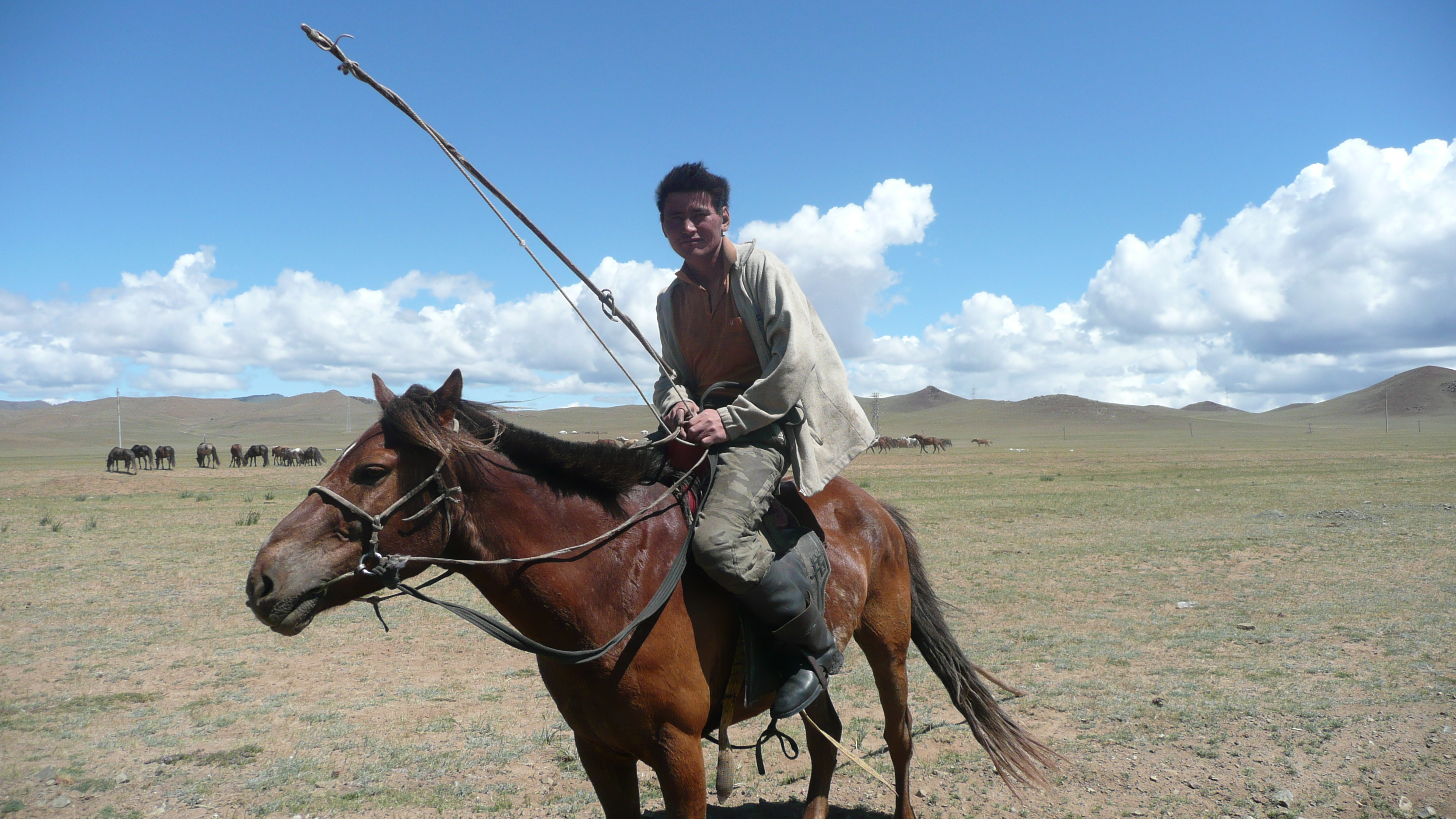 Mongolian horse in Gorkhi-Terelj National Park